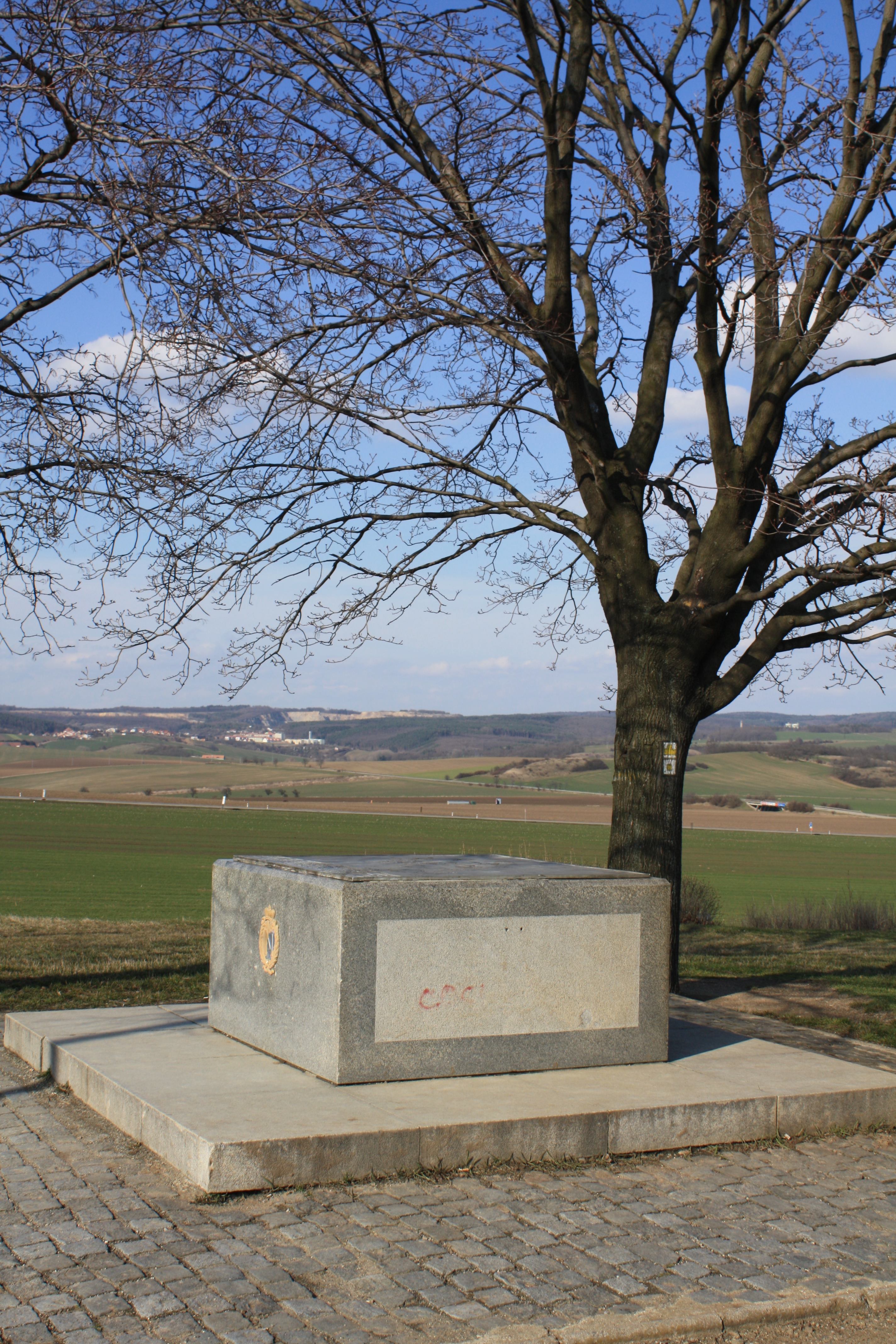 Žuráň hill, Brno-Country District, Czech Republic